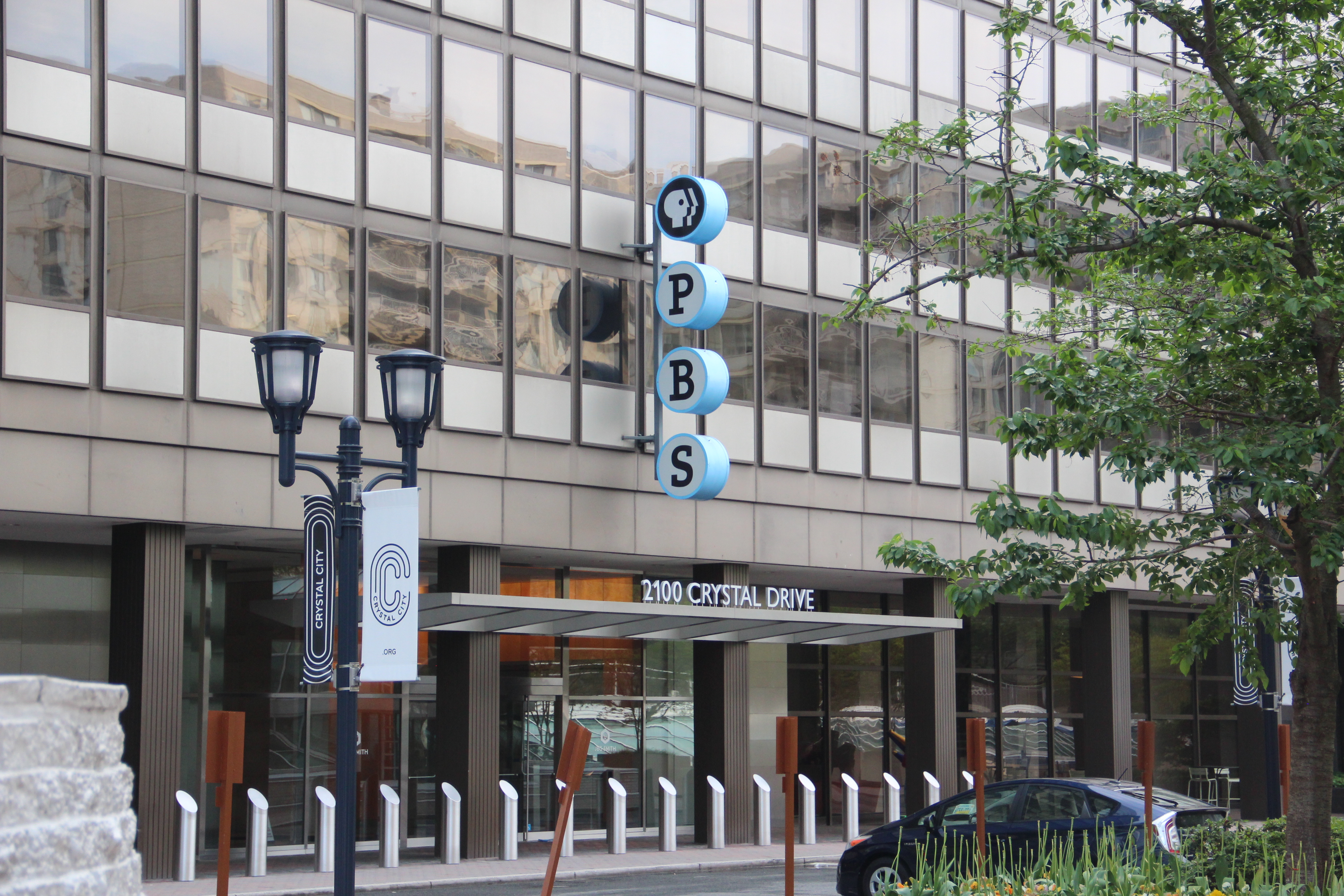 2100 Crystal Dr, Arlington, VA